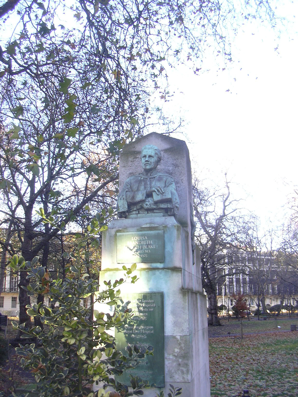 Louisa Brandreth Aldrich-Blake memorial in Tavistock Square, London